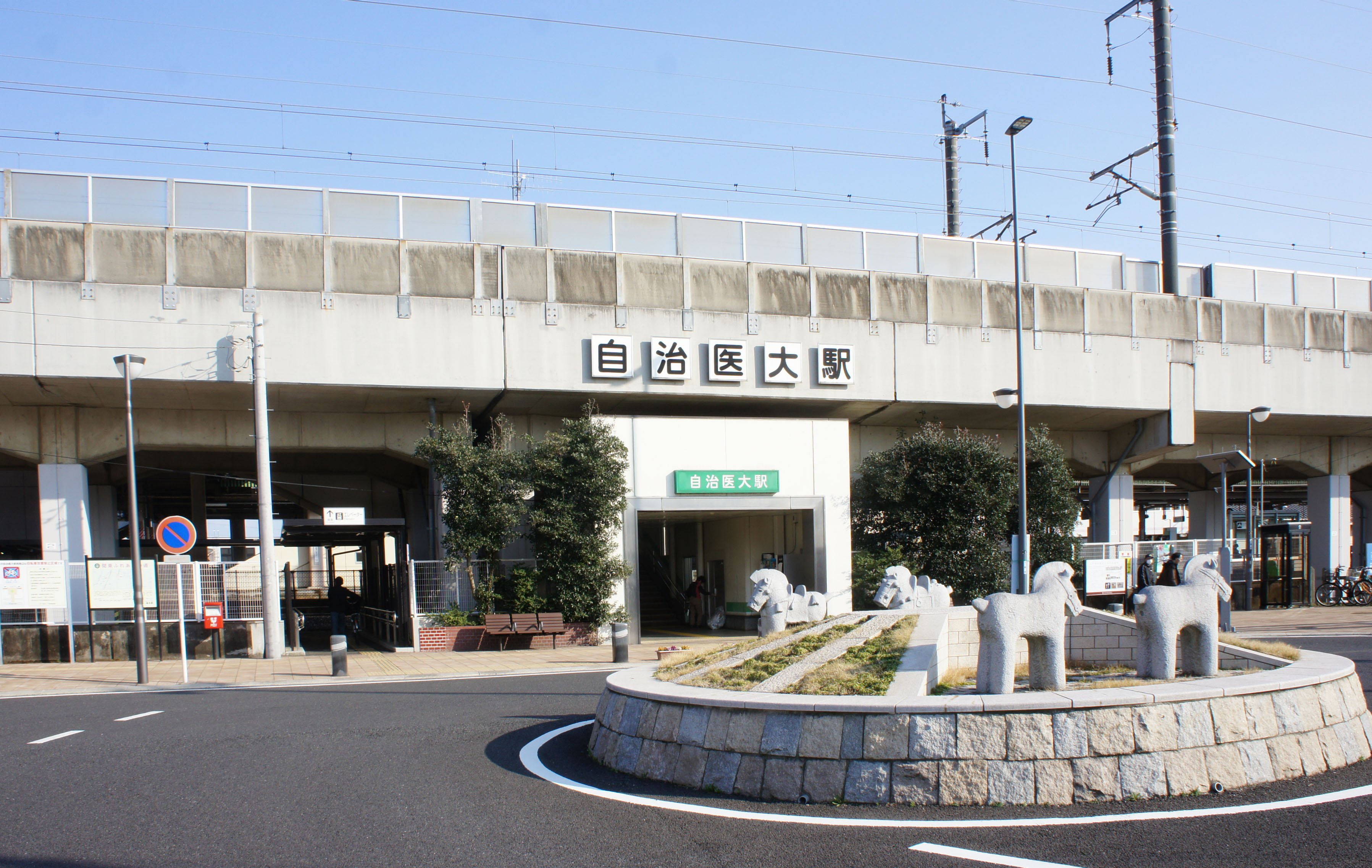 West Exit of JR Tohoku-Main-Line (Utsunomiya Station) Jichi Medical University Station Sony NEX-3